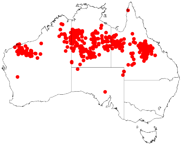 Acacia tenuissima Occurrence data from Australasia Virtual Herbarium downloaded from on 8 December 2018